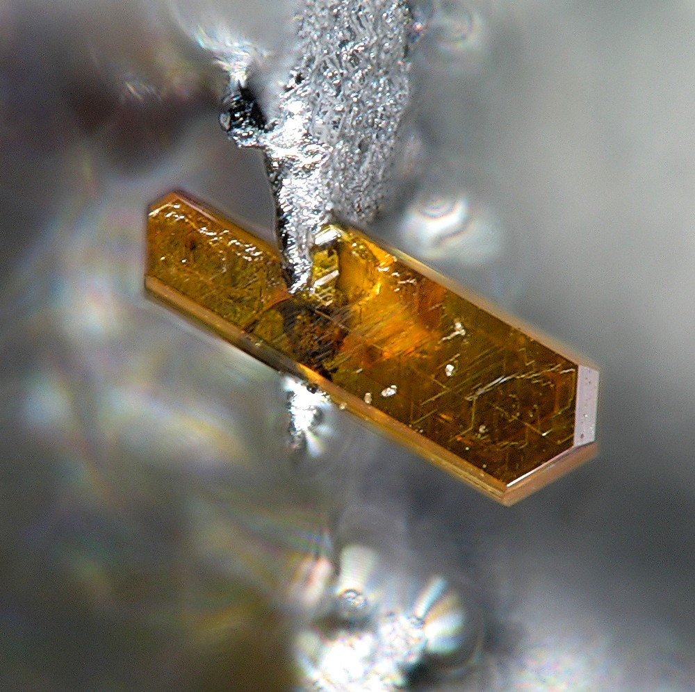 Xanthoconite Locality: Imiter Mine, Boumalne-Dadès, Ouarzazate Province, Souss-Massa-Draâ Region, Morocco (Locality at ) Picture width 1 mm. Collection and photograph Christian Rewitzer